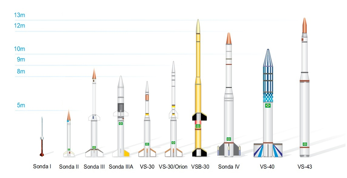 Brazilian Sounding rockets shapes.